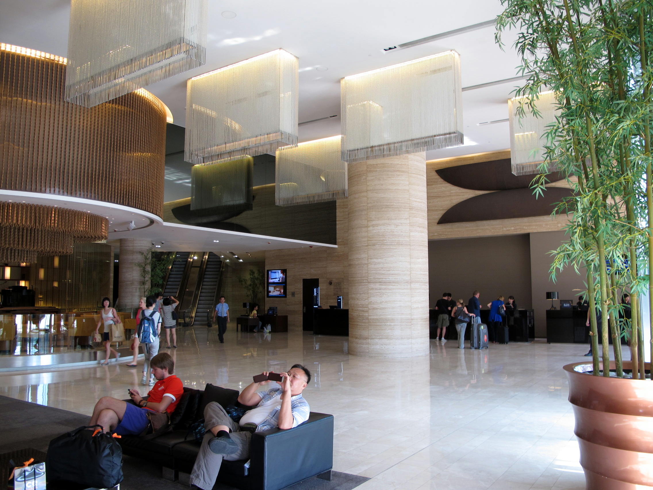 Novotel Citygate Lobby